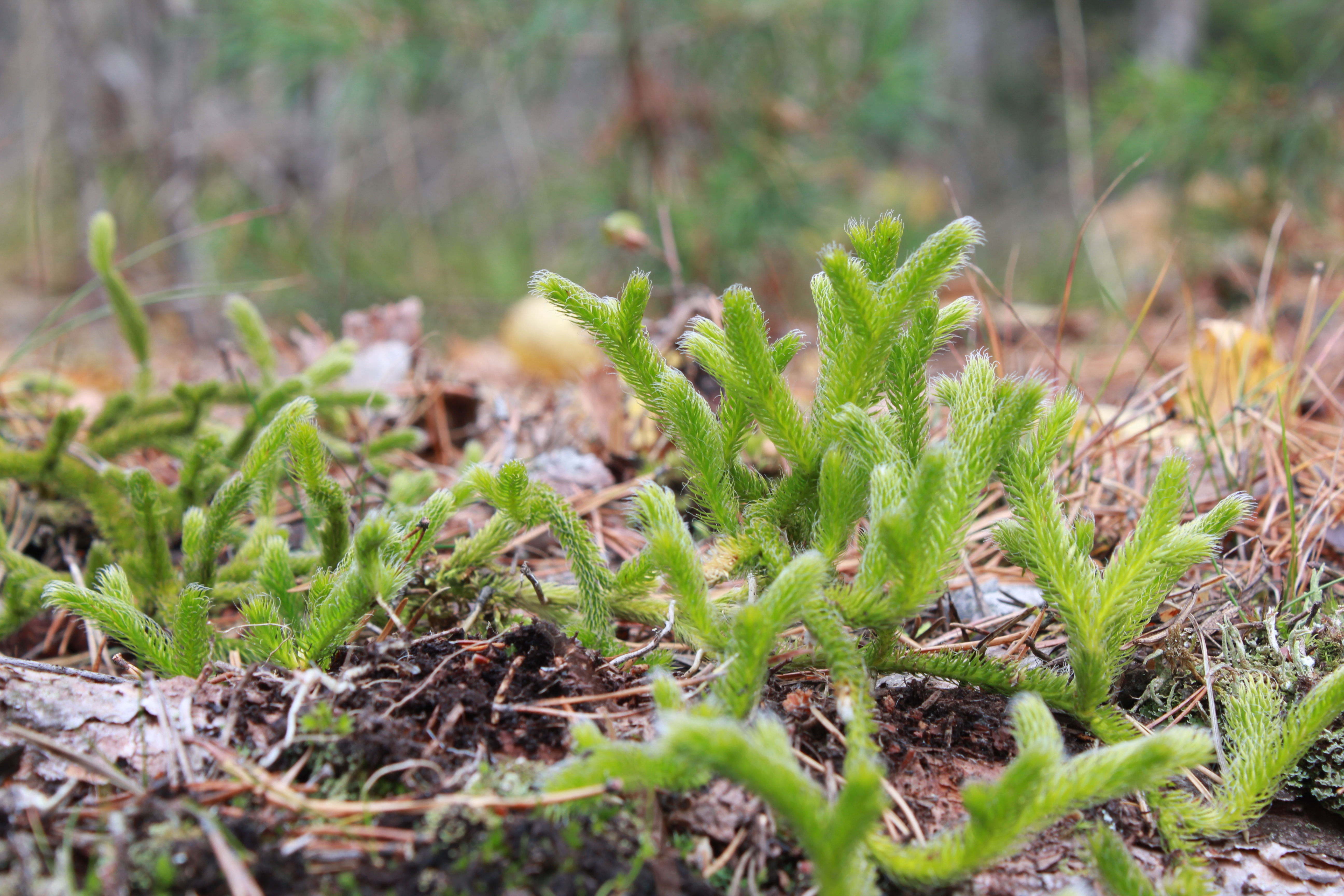 Wolf's-foot clubmoss (Lycopodium clavatum)